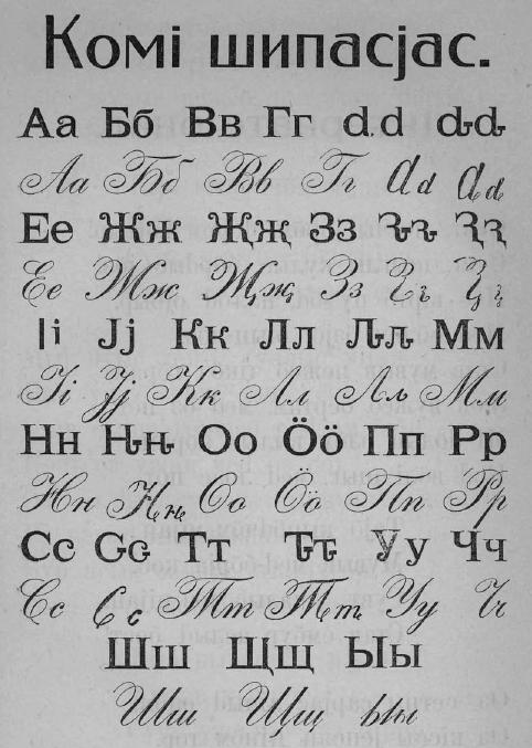 Komi alphabet (1918-1930)